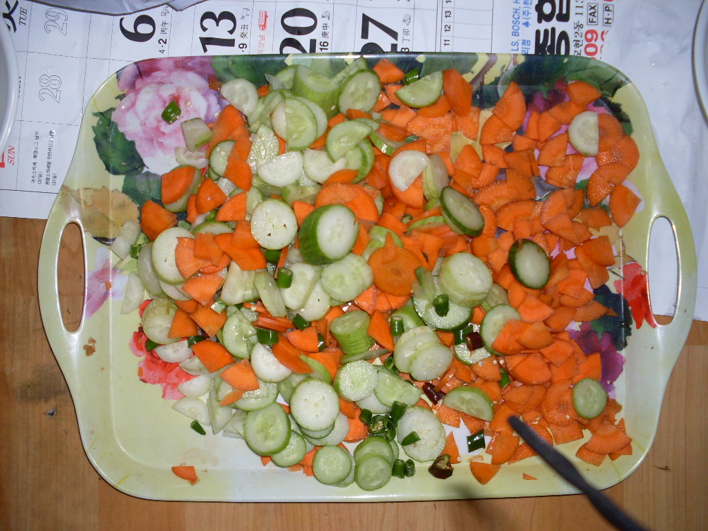 This an vegetable salad made by carrot and cucumber.